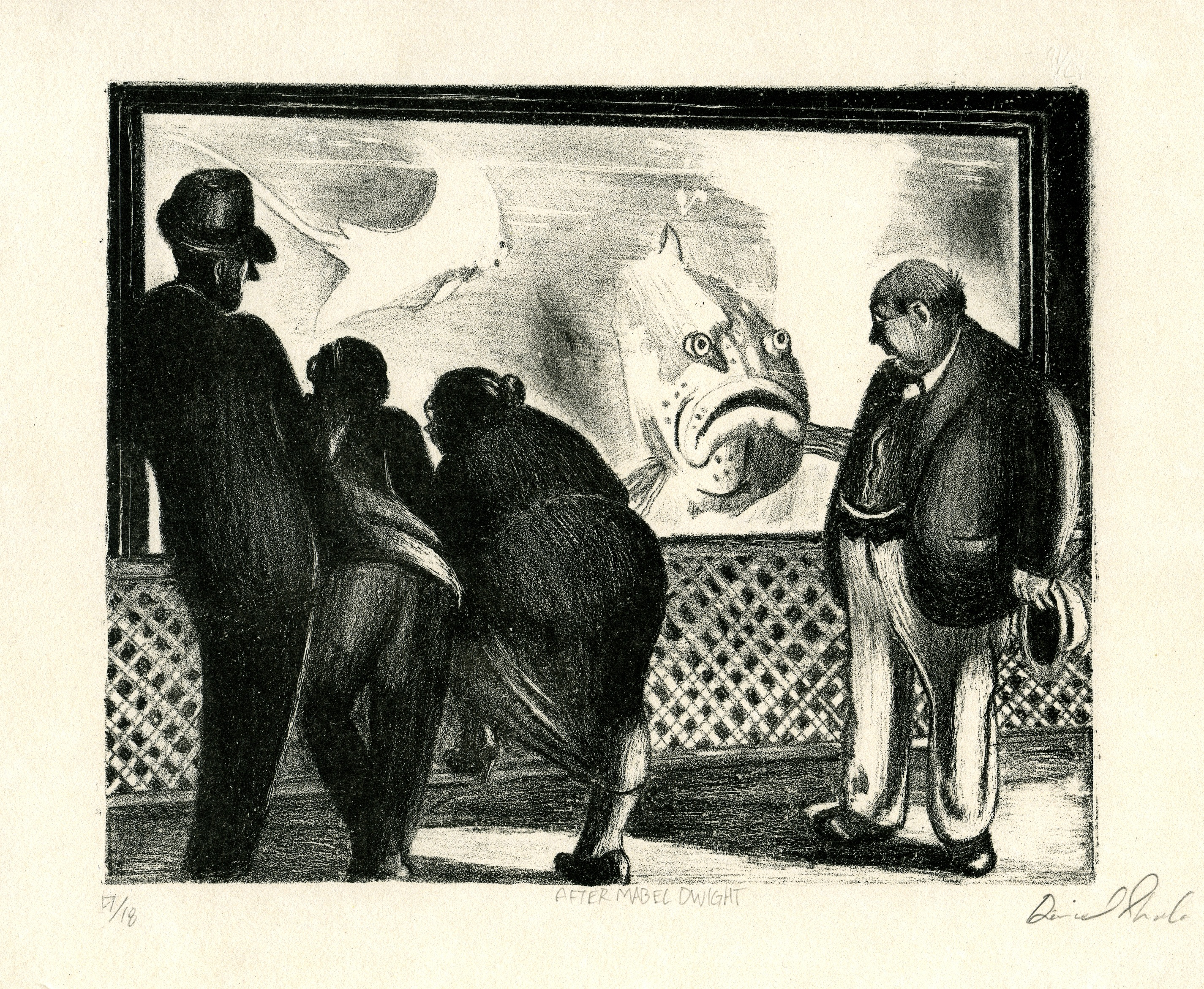 Mabel Dwight, Queer Fish, 1936, lithograph on stone, 27.2 x 33 cm, edition of 20 printed by George Miller